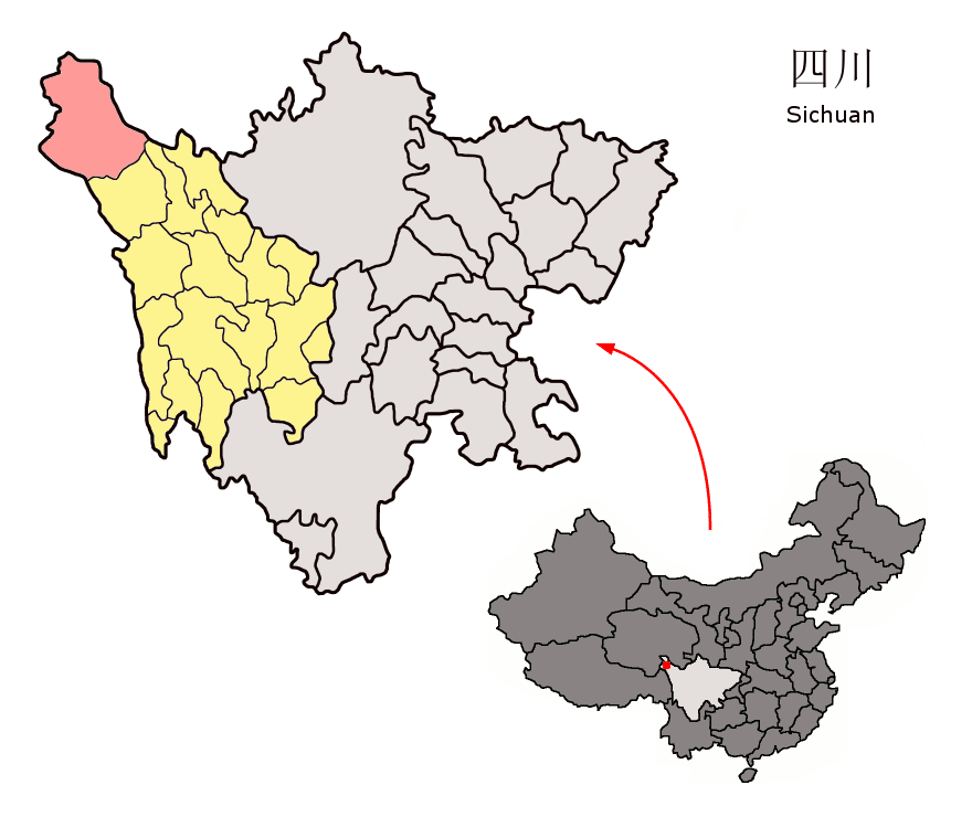 Location of Sêrxü County (pink) and Garzê Prefecture (yellow) within Sichuan province of China Map drawn in september 2007 using various sources, mainly : Sichuan province administrative regions GIS data: 1:1M, County level, 1990 Sichuan Counties map from